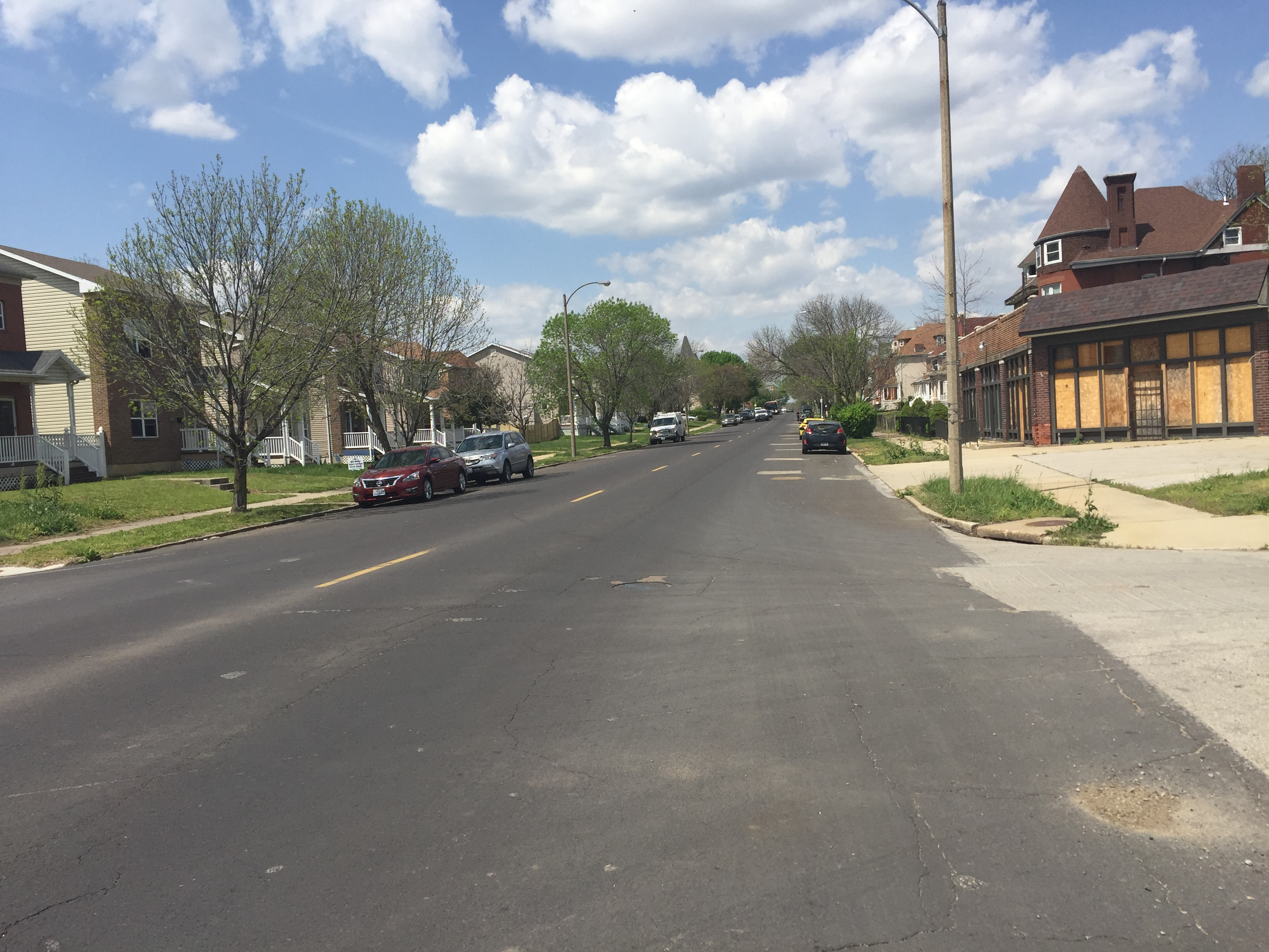 Delmar Boulevard, Saint Louis, Missouri. Left is south of Delmar Boulevard and right is north of Delmar Boulevard.